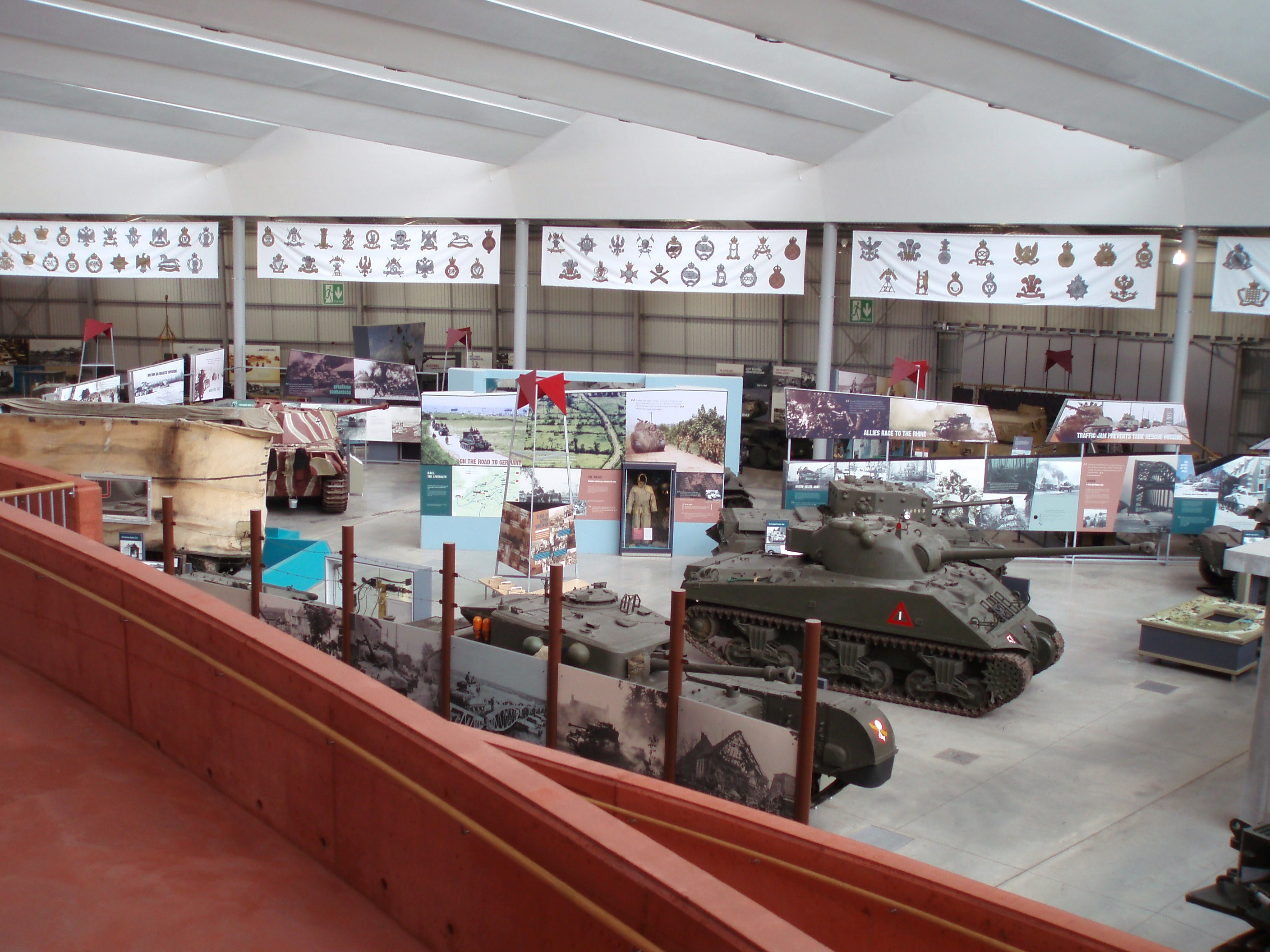 Bovington Tank Museum 007